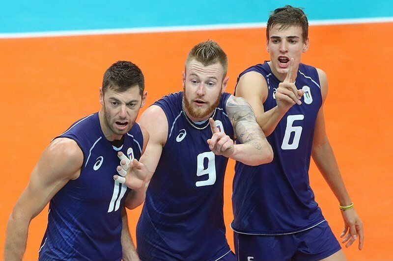 Volleyball match between national teams of Ukraine and Italy at the Olympic Games in 2016